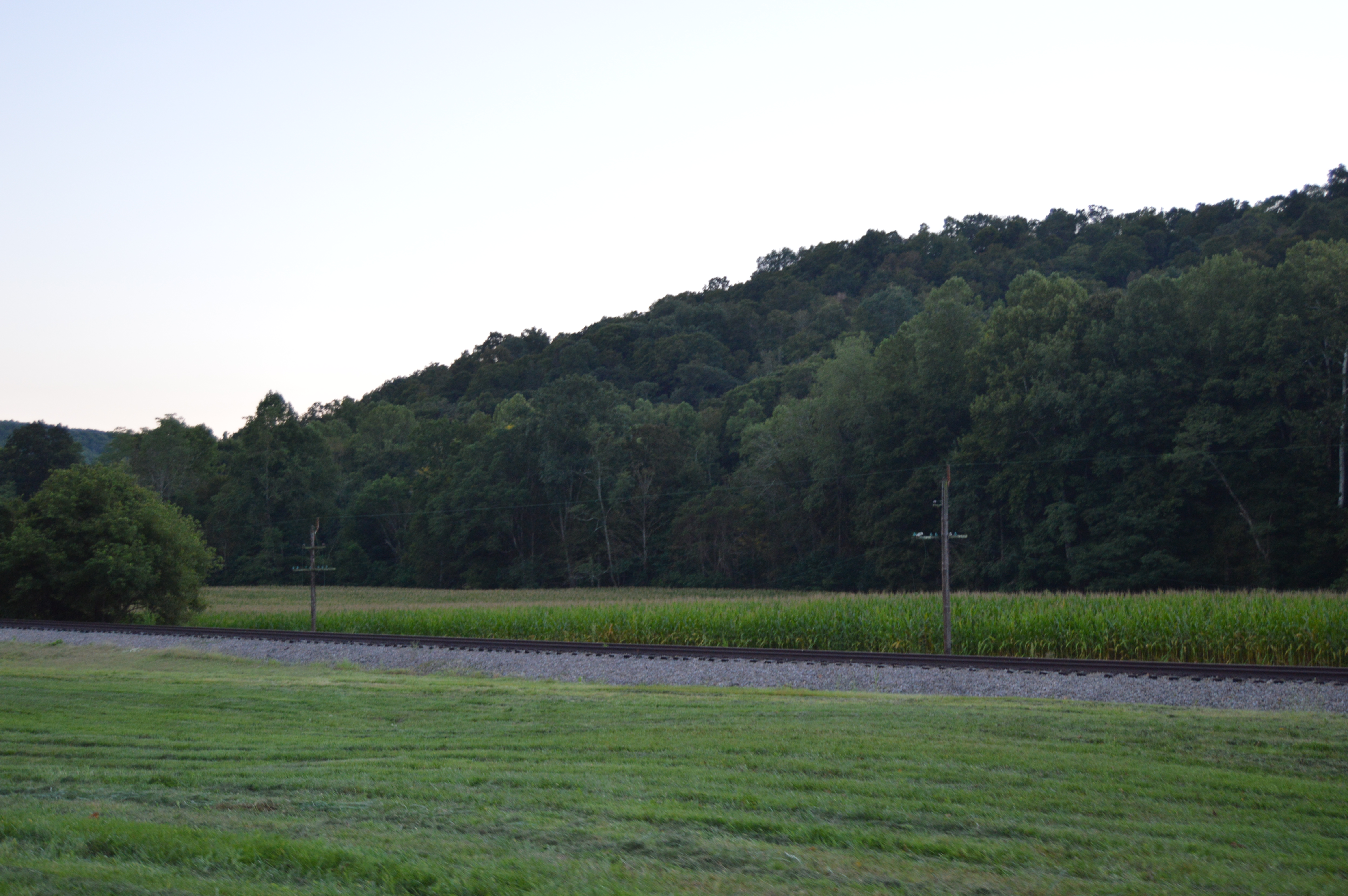 Cornfields and a rail line along State Route 73 south of Otway in Brush Creek Township, Scioto County, Ohio, United States.